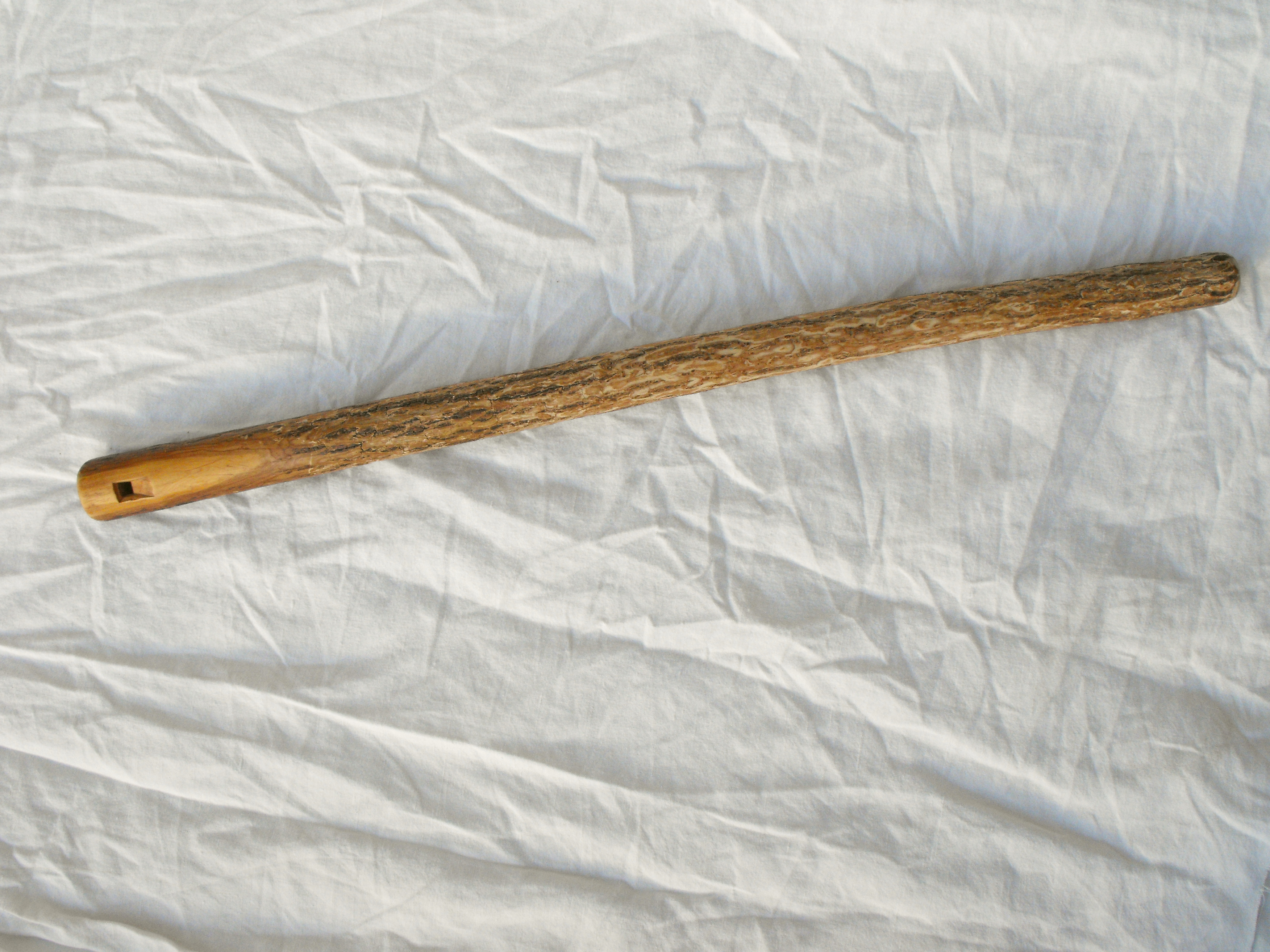 Koncovka. Manufacturer: Veleslav.